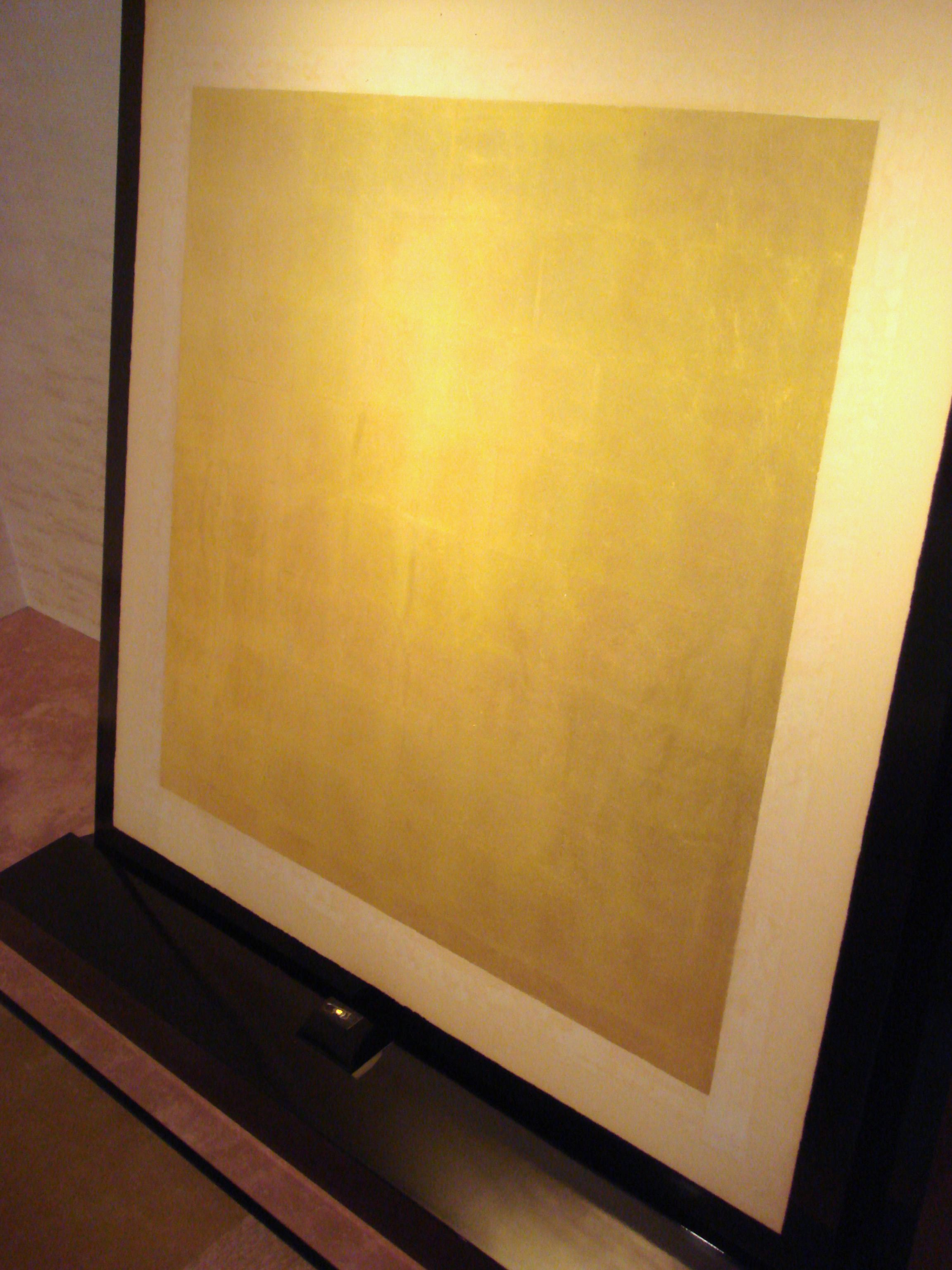 Small gold nugget 5mm dia and corresponding gold foil surface of half sq_meter